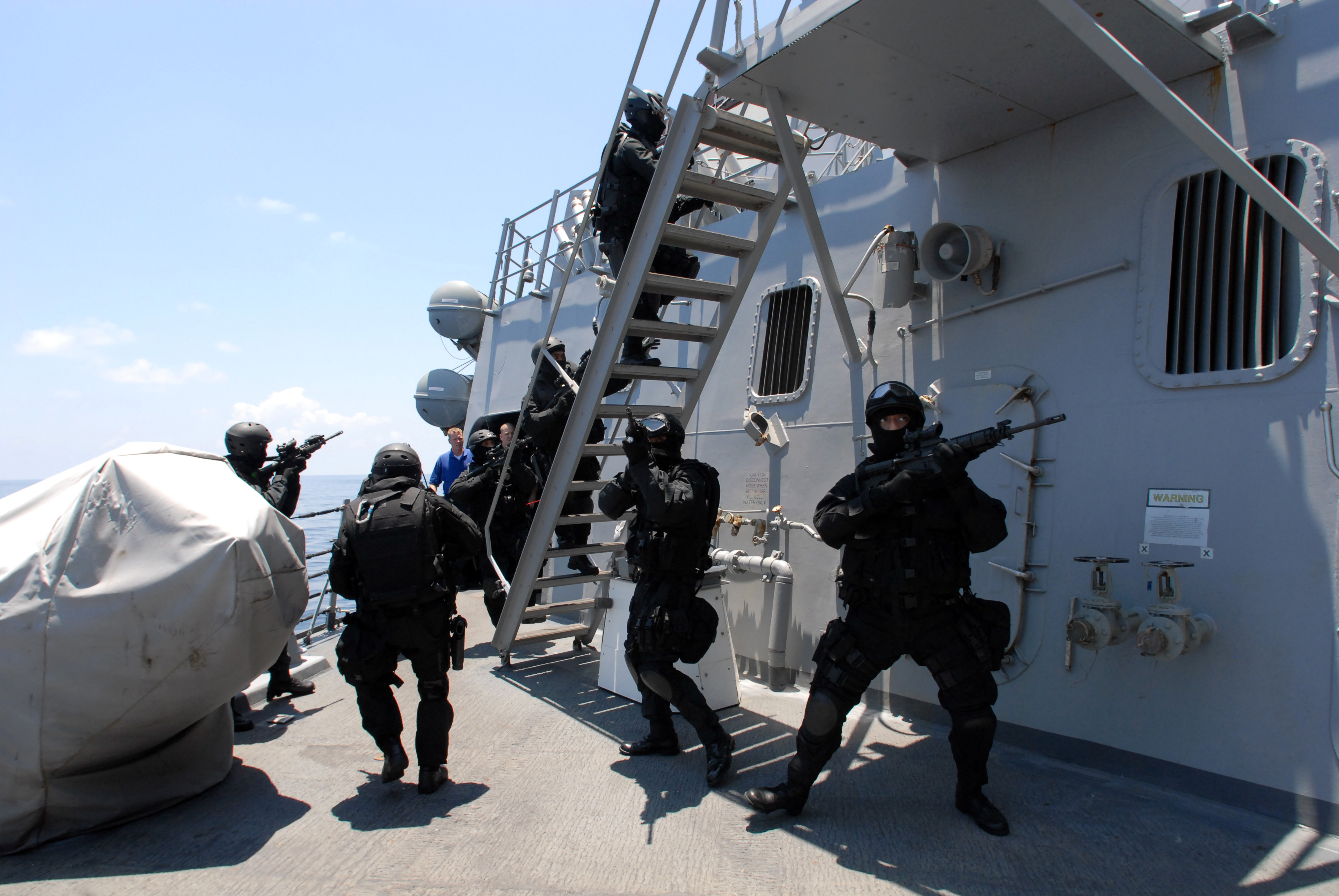 PACIFIC OCEAN (Aug. 18, 2008) Members of the Brunei Special Forces rush towards the pilot house of the Arleigh Burke-class guided-missile destroyer USS Howard (DDG 83) during a visit, board, search and seizure exercise. Howard, along with the Brunei Air Force and Royal Brunei Navy, are participating in South East Asia Cooperation Against Terrorism exercises off the coast of Brunei. Howard and the Ronald Reagan Carrier Strike Group are on a scheduled deployment in the U.S. 7th Fleet area of responsibility operating in the western Pacific and Indian oceans. (U.S. Navy photo by Mass Communication Specialist 3rd Class Joshua Scott/Released)